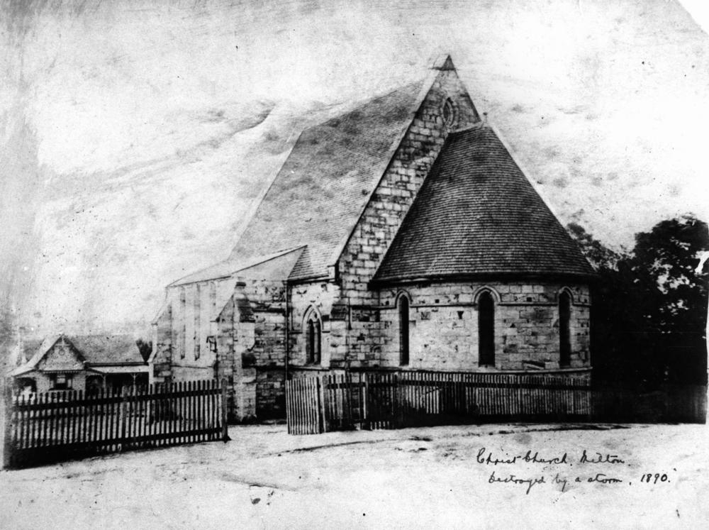 Christ Church at Milton, Brisbane, Queensland, Australia before it was destroyed by a storm in 1890. It was damaged beyond repair and was replaced by a "temporary" church that still stands and is heritage-listed.